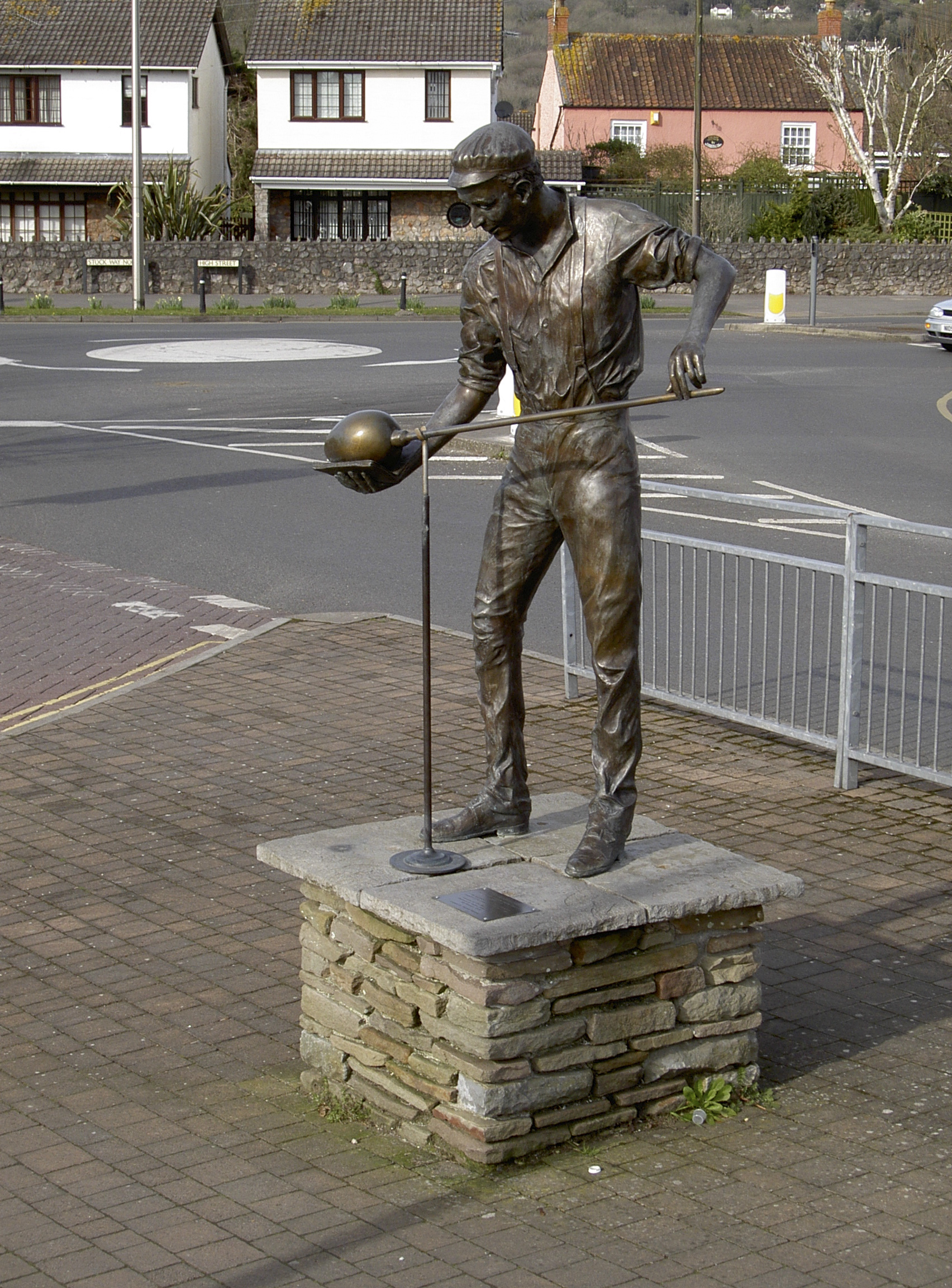 The craftsman